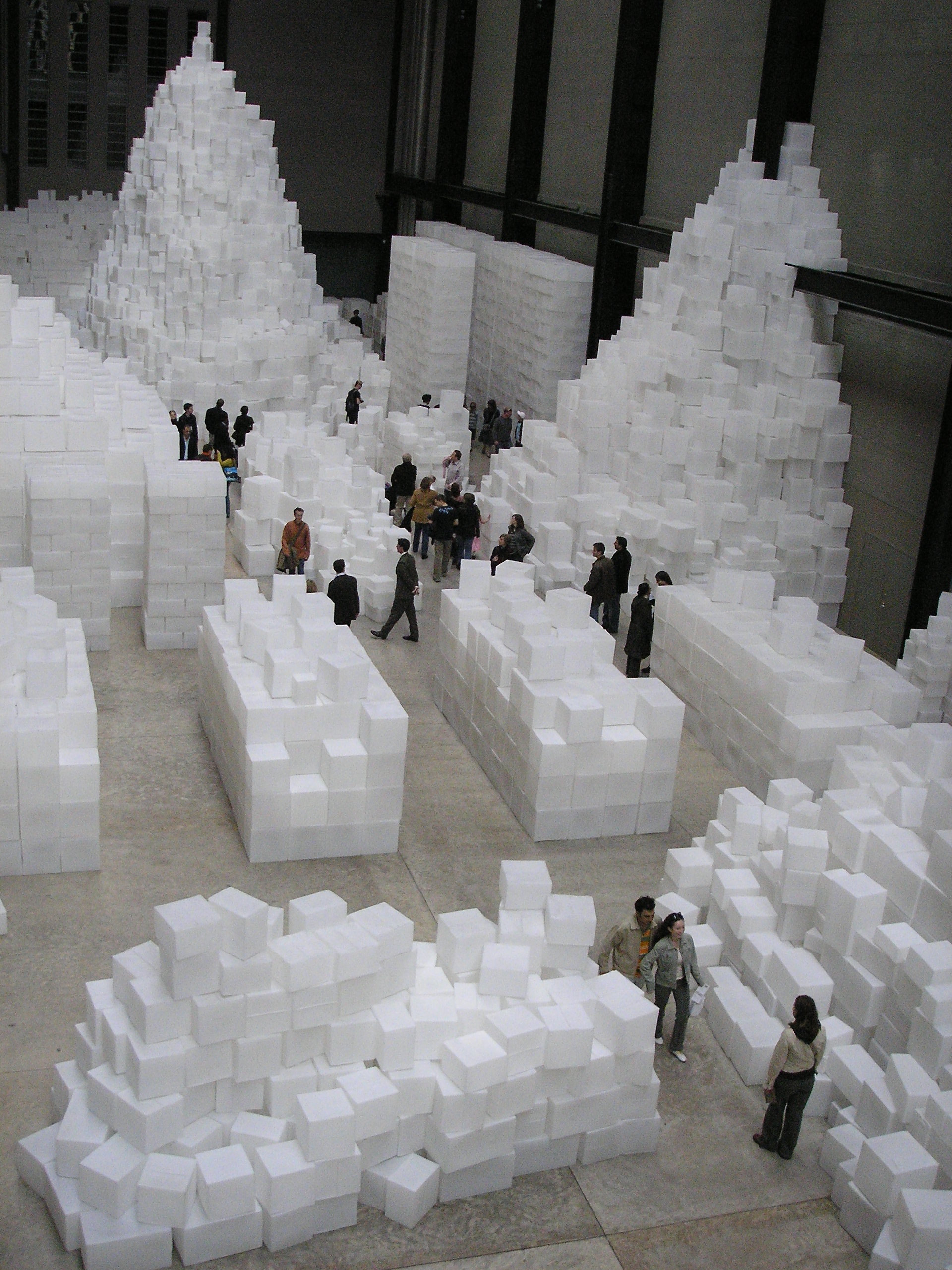 Embankment by Rachel Whiteread at the Tate Modern in London.